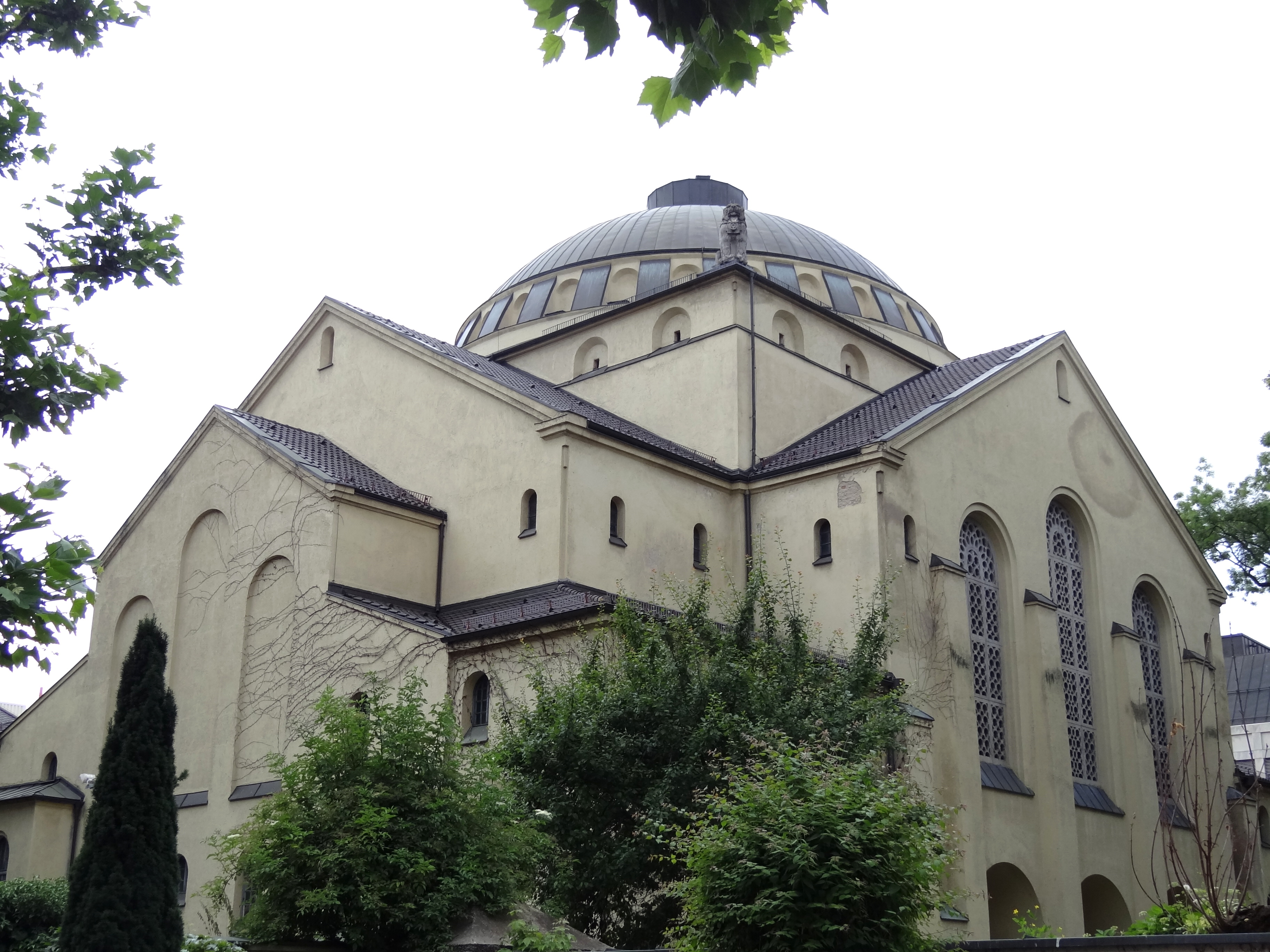 Synagogue - Augsburg - Germany